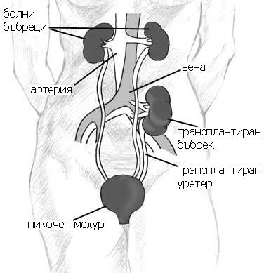 Kidney location after transplantation. Inscriptions in Bulgarian.